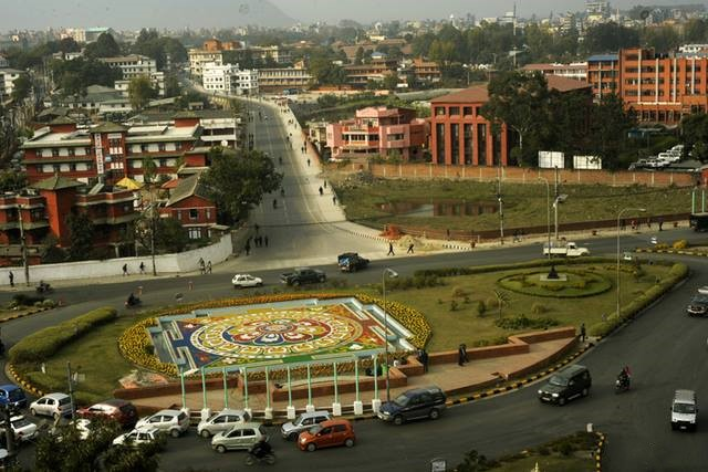 Maitighar Mandala, an island in the middle of the road in Kathmandu, depicting the traditional painting in the form of flattened stupa of Buddhist relics.